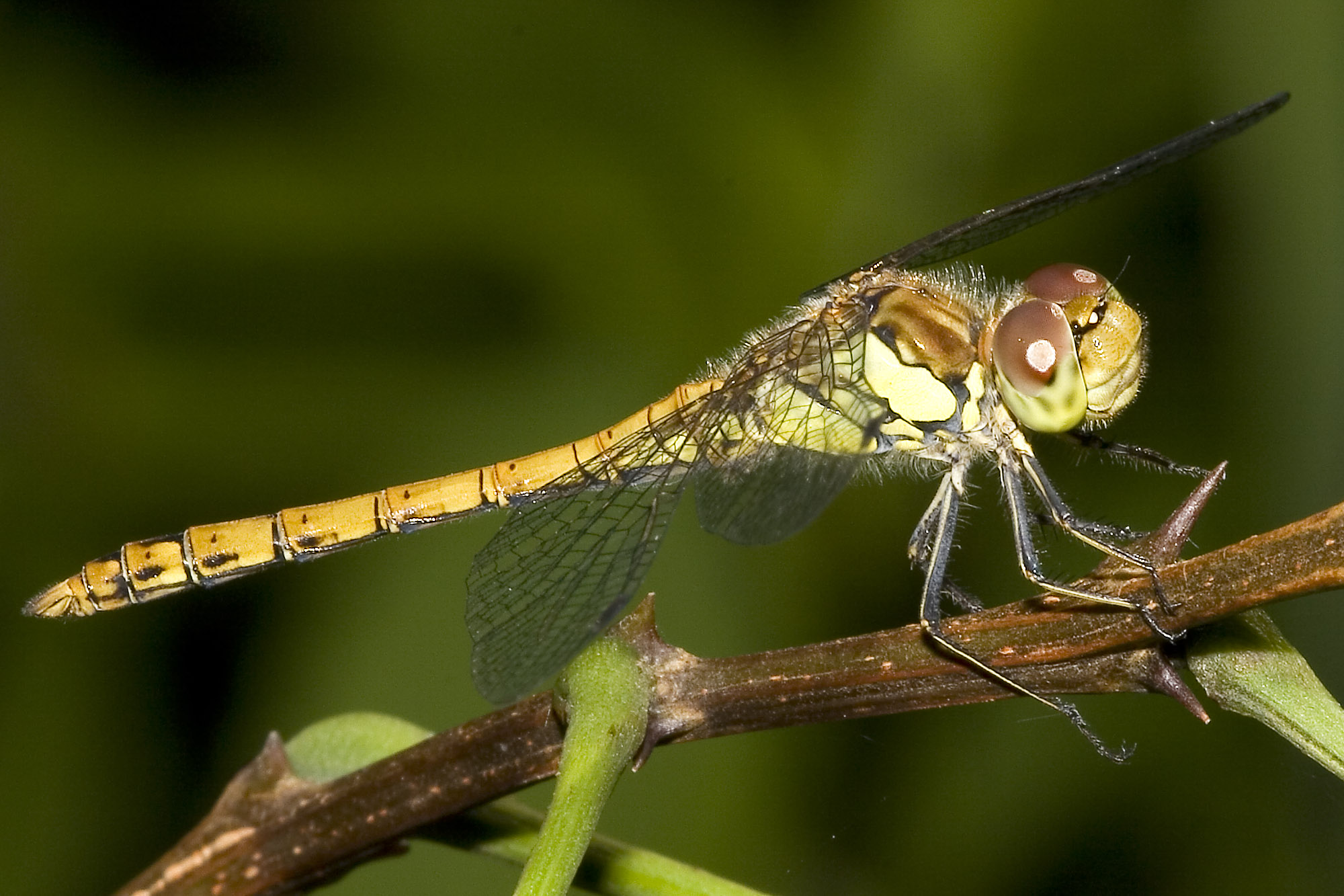 Common Darter, young male, Sympetrum striolatum